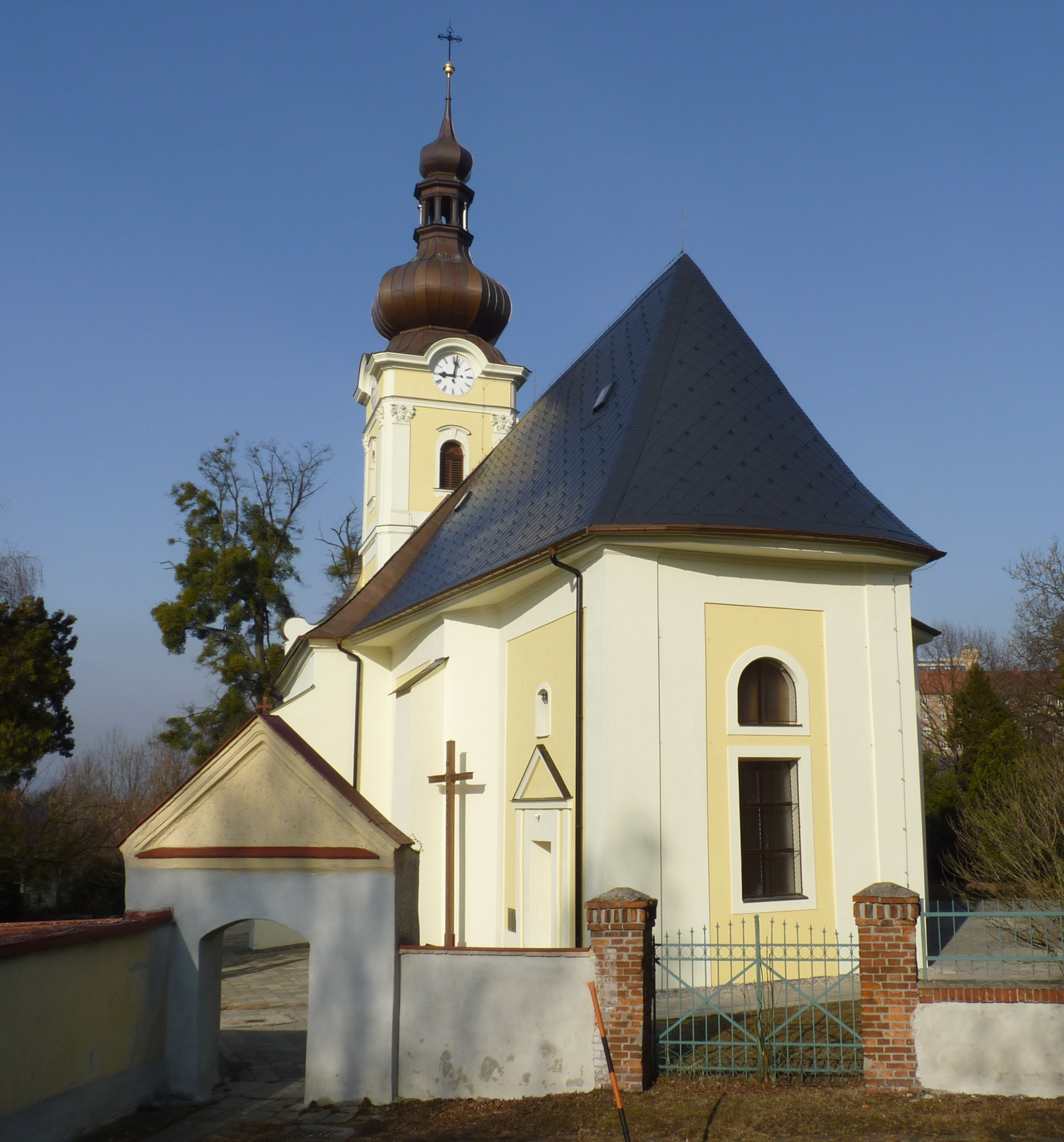 Church of Saint Nicholas in Ostrava-Poruba. Ostrava-city District, Moravian-Silesian Region, Czech Republic